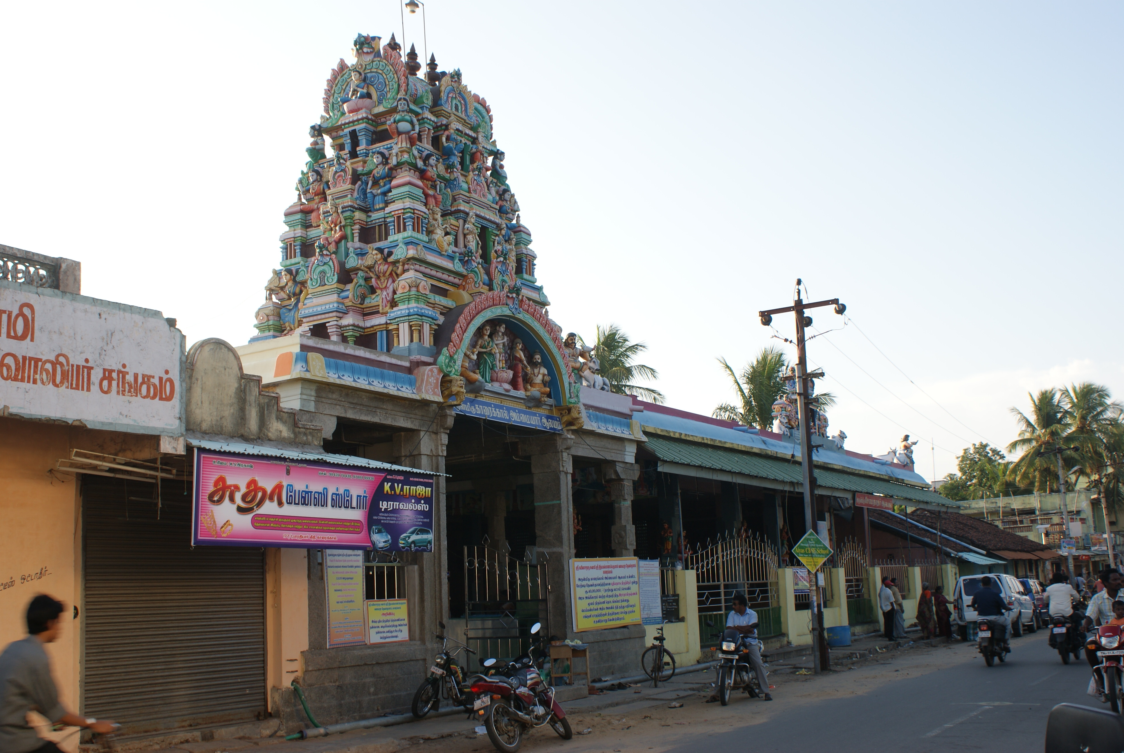 Karaikal Ammaiyar temple in Karaikal